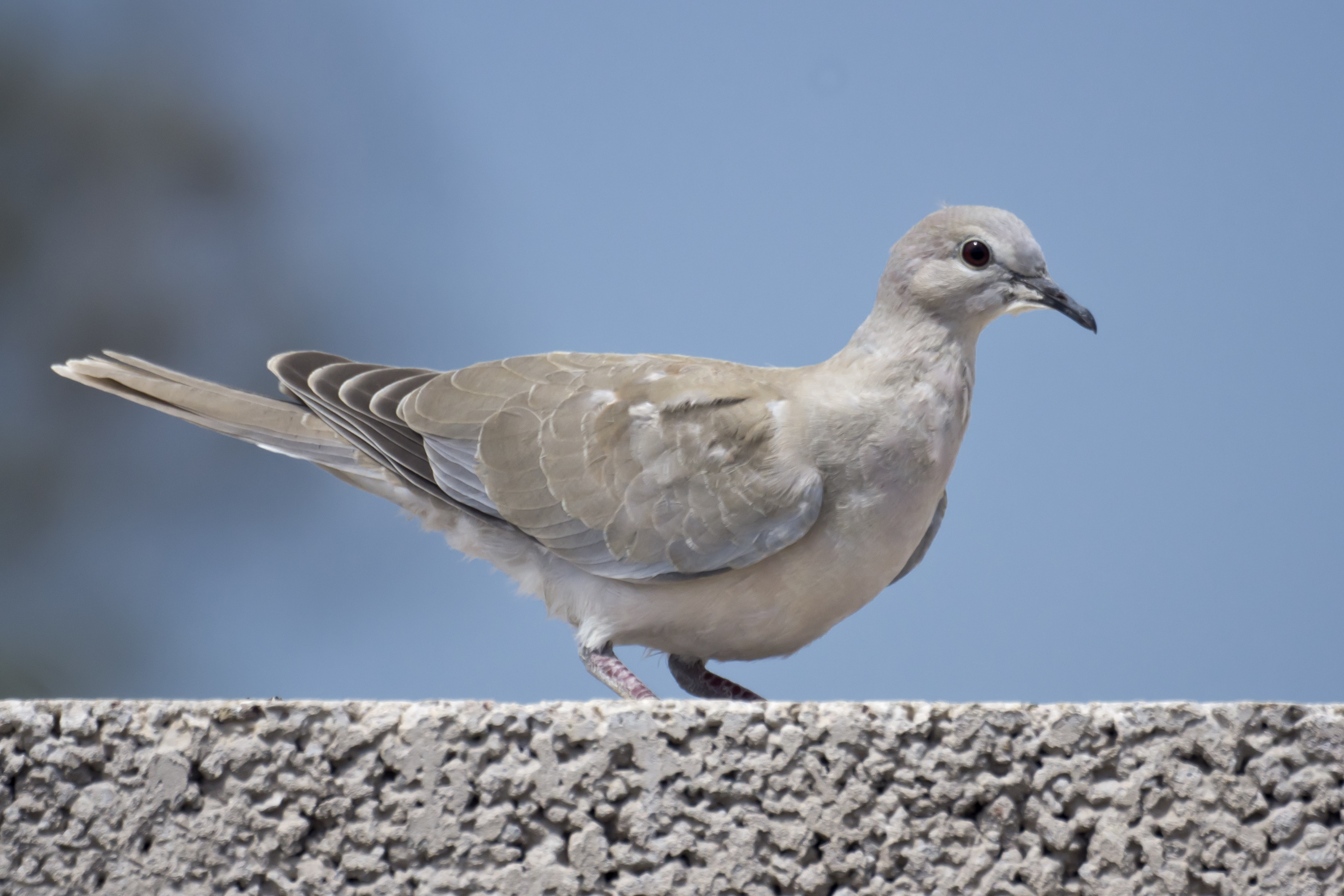 A juvenile Eurasian Collared Dove on Gran Canaria, Canary Islands, Spain.